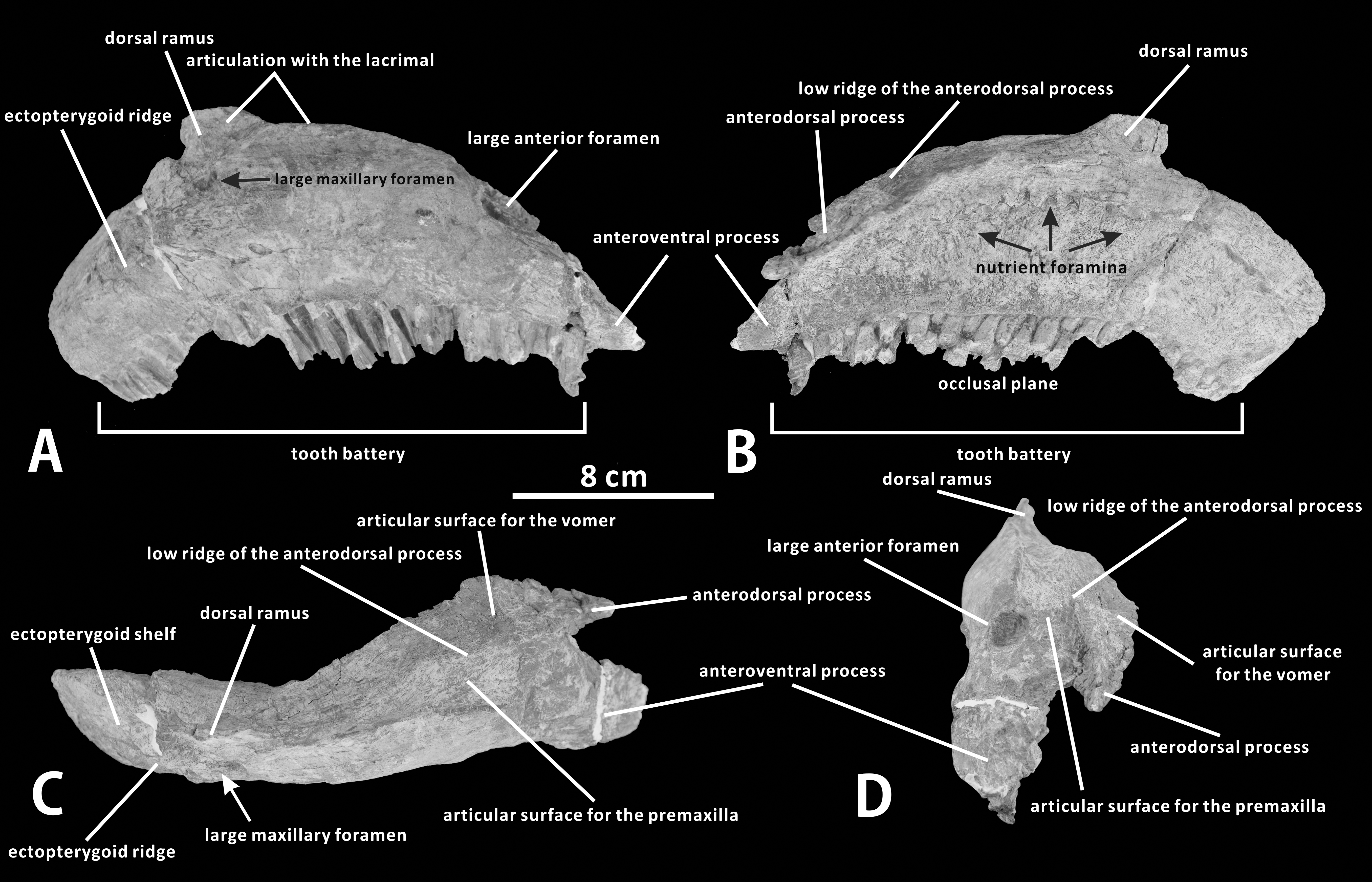 Maxilla of Zhanghenglong yangchengensis. Right maxilla (XMDFEC V0013, holotype) in lateral (A), medial (B), dorsal (C), and anterior (D) views.